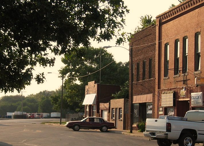 Downtown Perry, Kansas